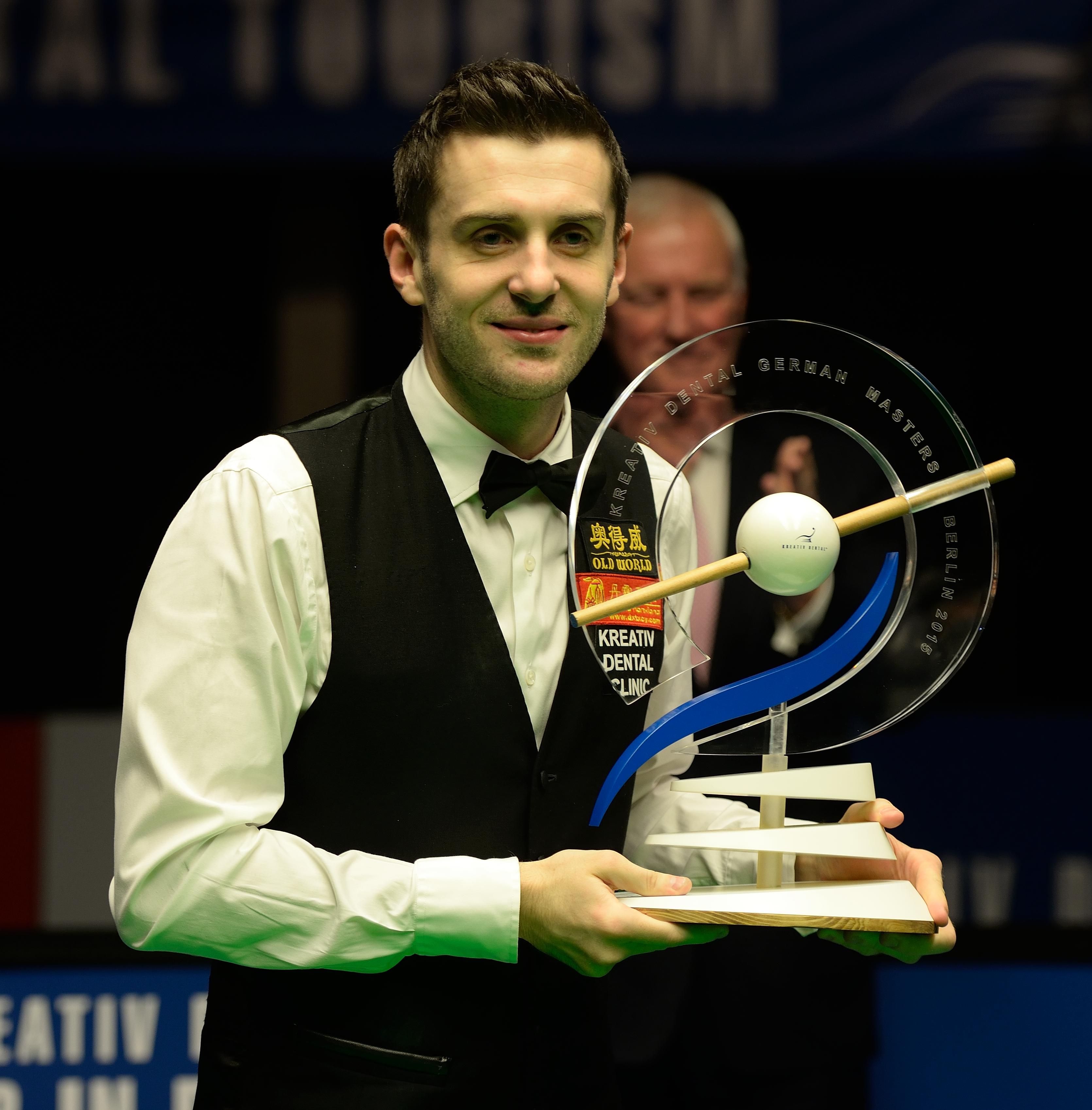 Picture taken in Berlin during the Snooker German Masters in 2015. Mark Selby.